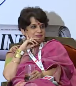 Kavita Kané (Indian writer), in Times Lit Fest: Women in mythology Redefining desire